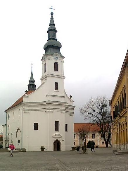 Catholic Church in Szigetvár, Hungary